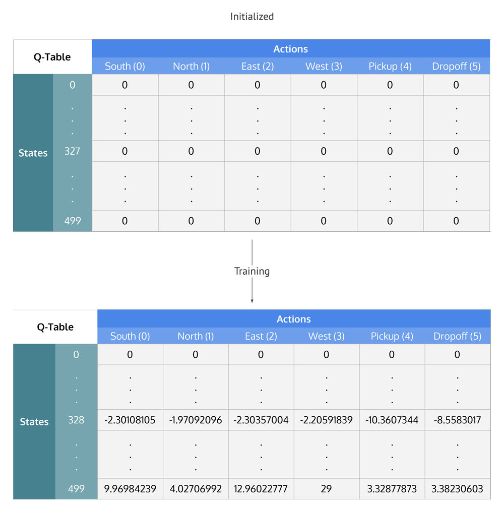 Depicts a Q-Learning table of states by actions that is initialized to zero, then each cell is updated through training.